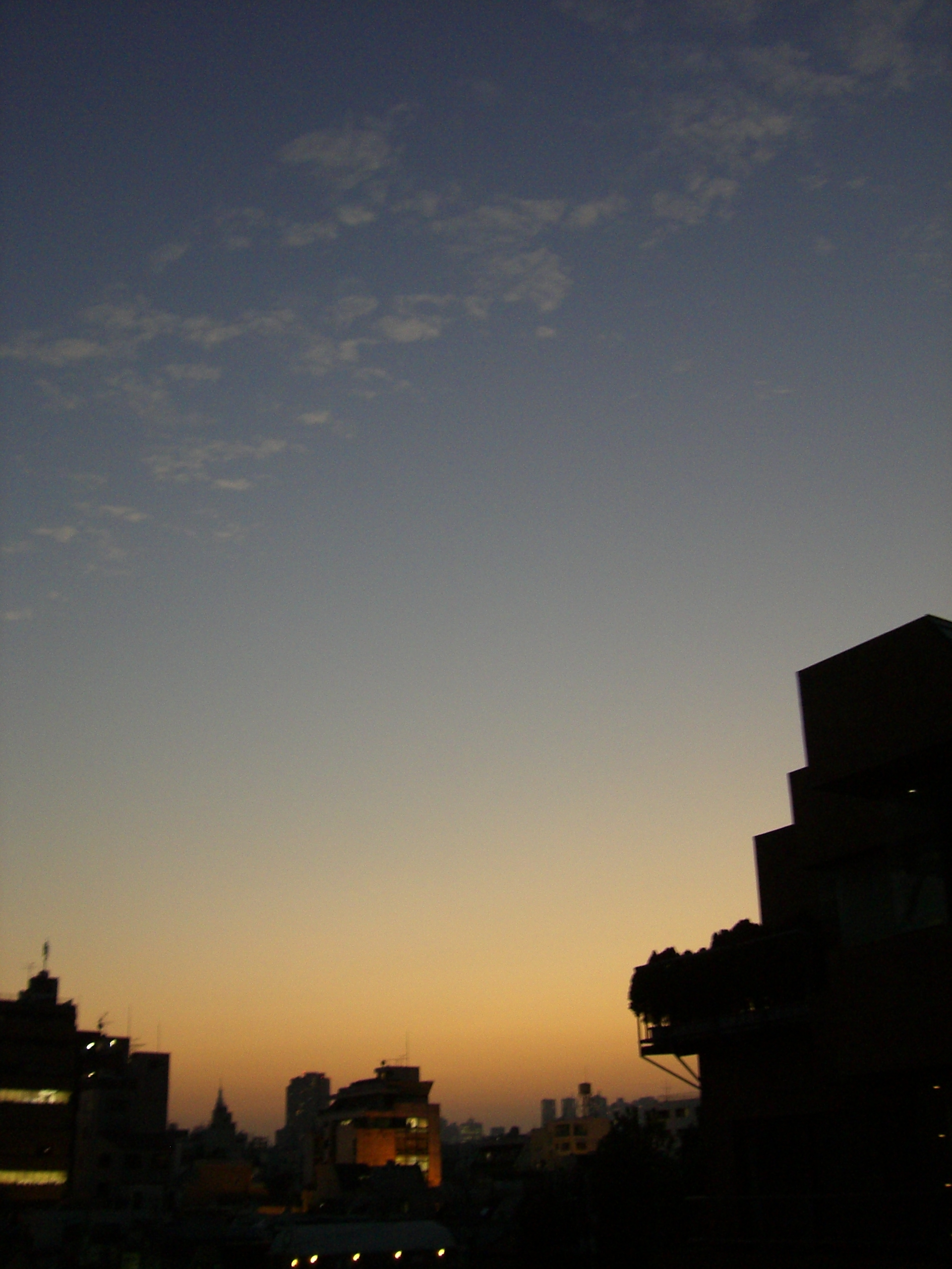 Sky of center of evening and night